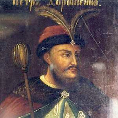 Hetman Petro Doroshenko